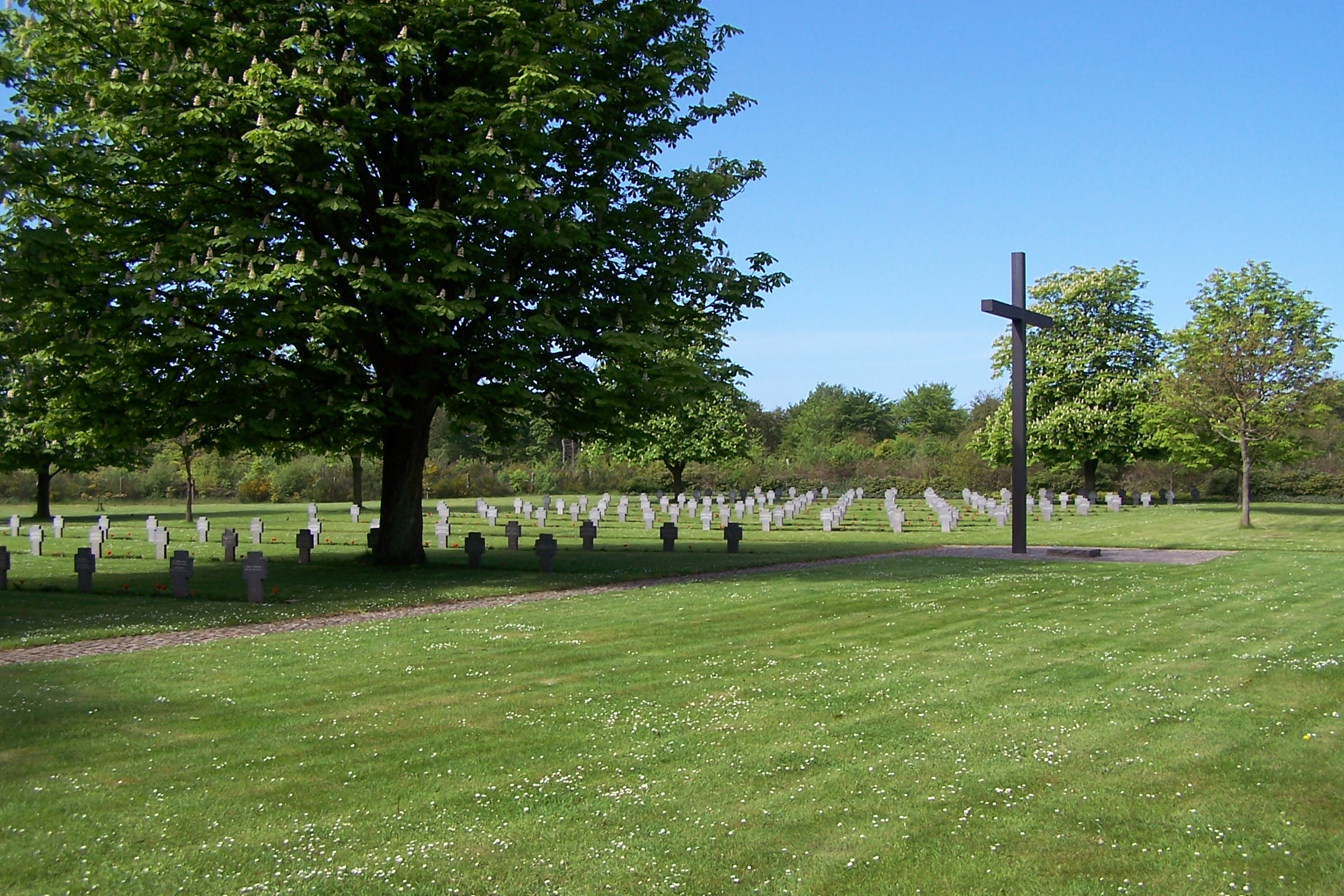 Esbjerg War Cemetery, the large German section. Photo: Chris Nyborg, May 2005